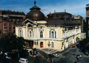 The Vígszínház at István körút in Budapest